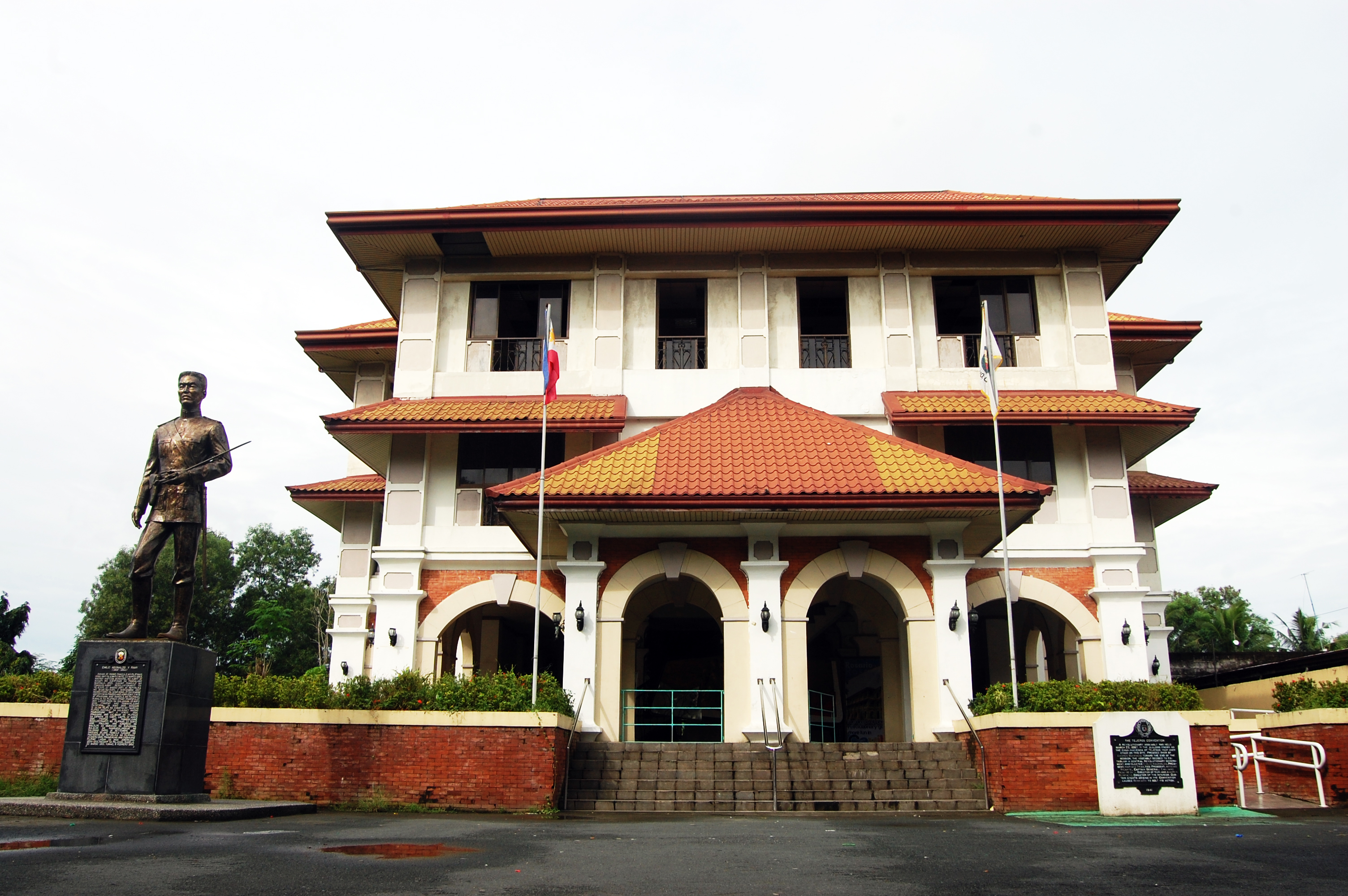 Føroyskt: Home of the philippine revolutionary goverment